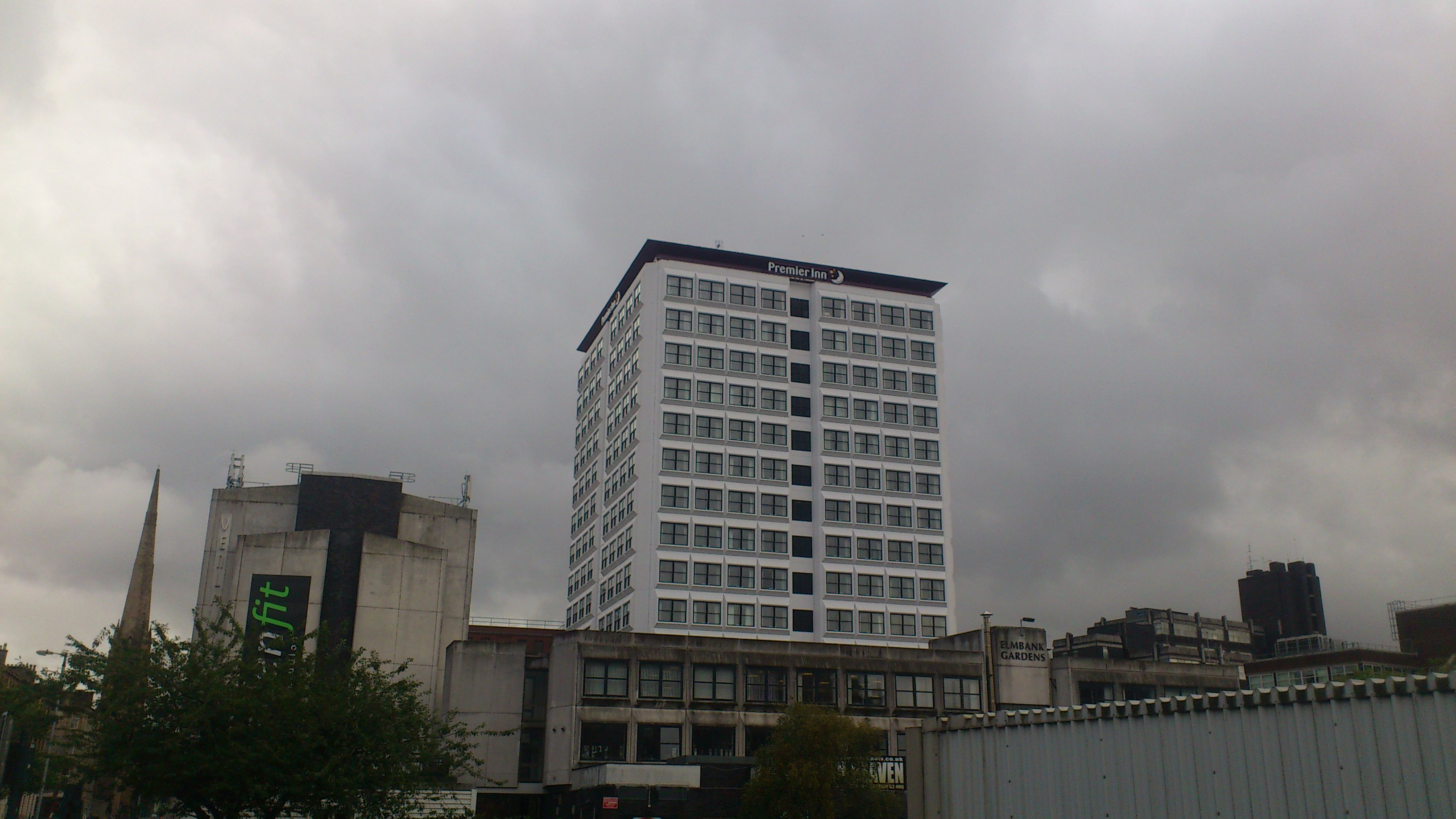 Elmbank Gardens Complex, Glasgow. Designed by the Richard Seifert Co-Partnership (1970-73)